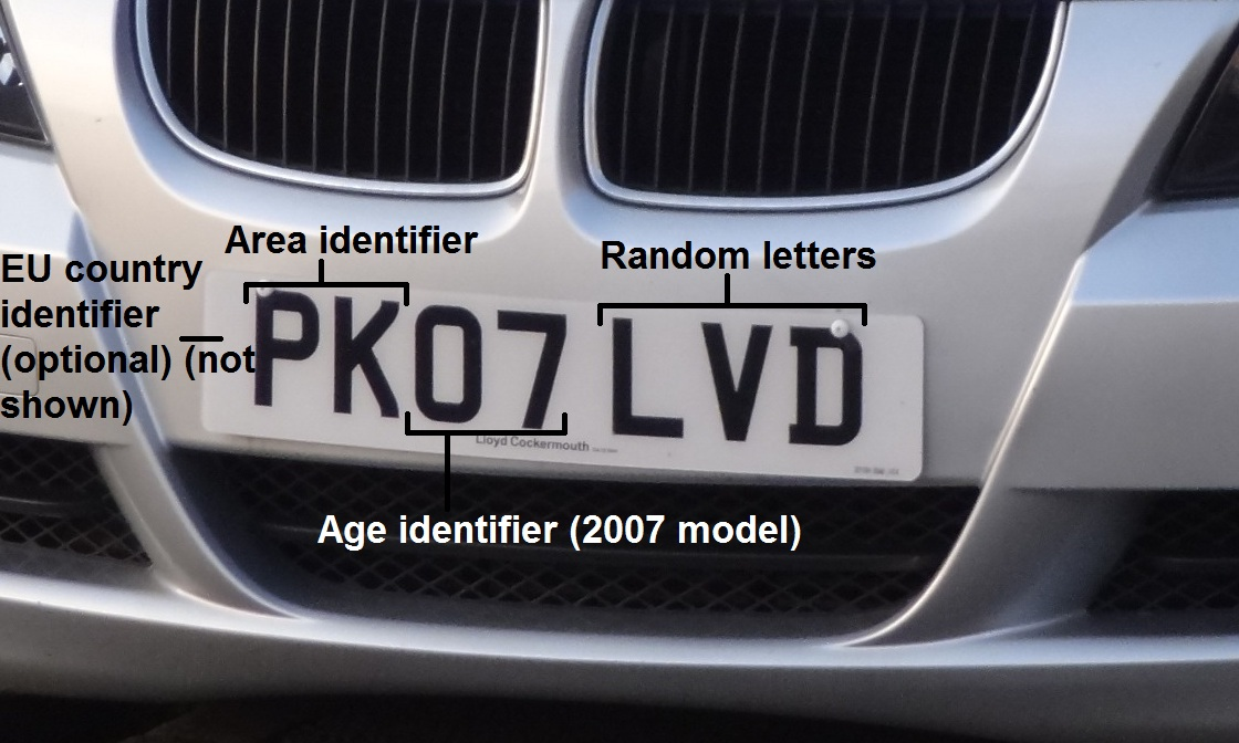 Front British number plate (labelled)